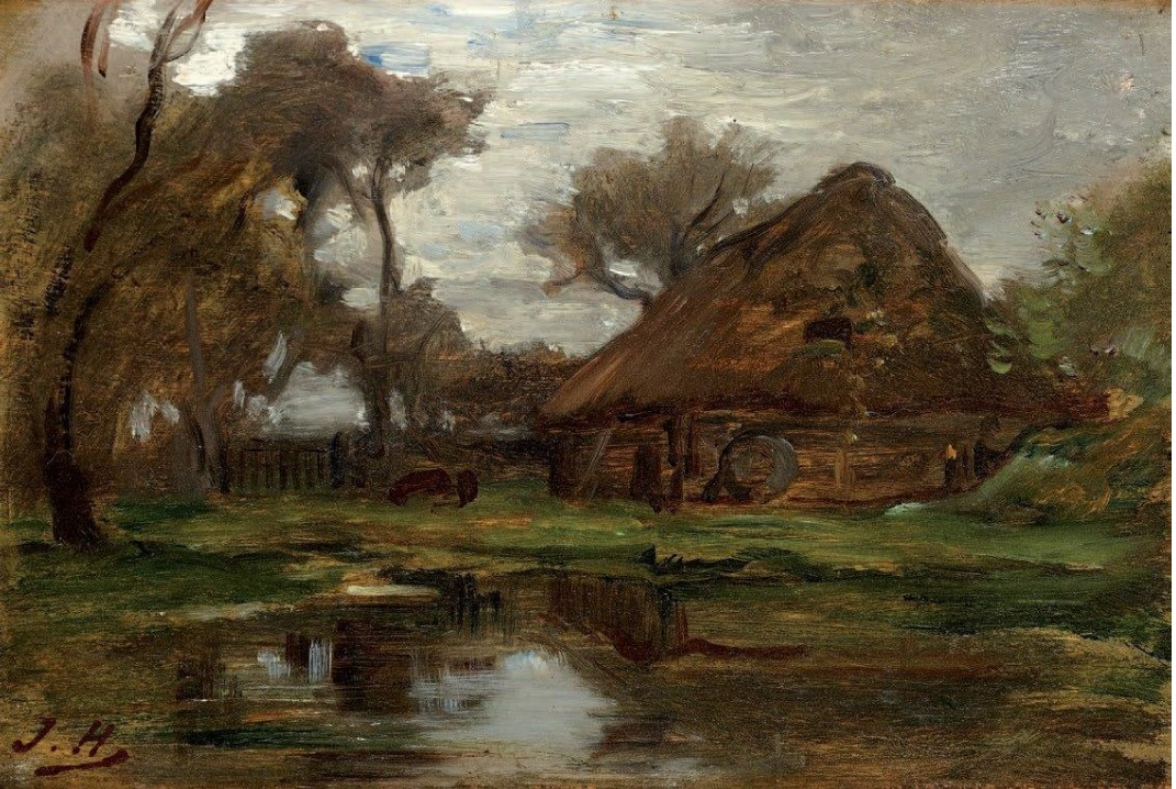 Ferme normande, oil on canvas by Jules Héreau, circa 1862, 16 x 24 cm.